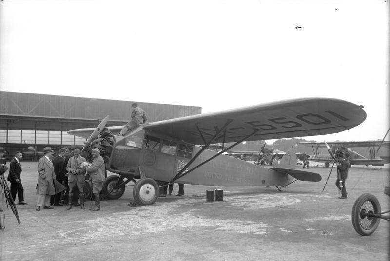 Mit dem Flugzeug in 18 Tagen um die Welt! Die beiden Amerikaner der Pilot Charles Collyer und sein Begleiter, der Journalist John Henry Nears (Mears?) , sind von Cherbourg kommend in Berlin eingetroffen und nach kurzem Aufenthalt nach Tokio weitergeflogen. Sie beabsichtigen, die Welt in 18 Tagen zu umfliegen. Die Maschine der beiden wagemutigen Amerikaner mit welcher sie hoffen, in 18 Tagen die Welt zu umfliegen. Information added by Wikimedia users.By plane in 18 days around the world! The American pilot Charles Collyer and his companion, the journalist John Henry Nears (Mears?), arriving in Berlin from Cherbourg, and flew on to Tokyo after a short stay. They intend to fly around the world in 18 days. The machine of the two courageous Americans with which they hope to fly around the world in 18 days.